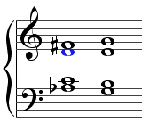 French sixth, generated on Sibelius.